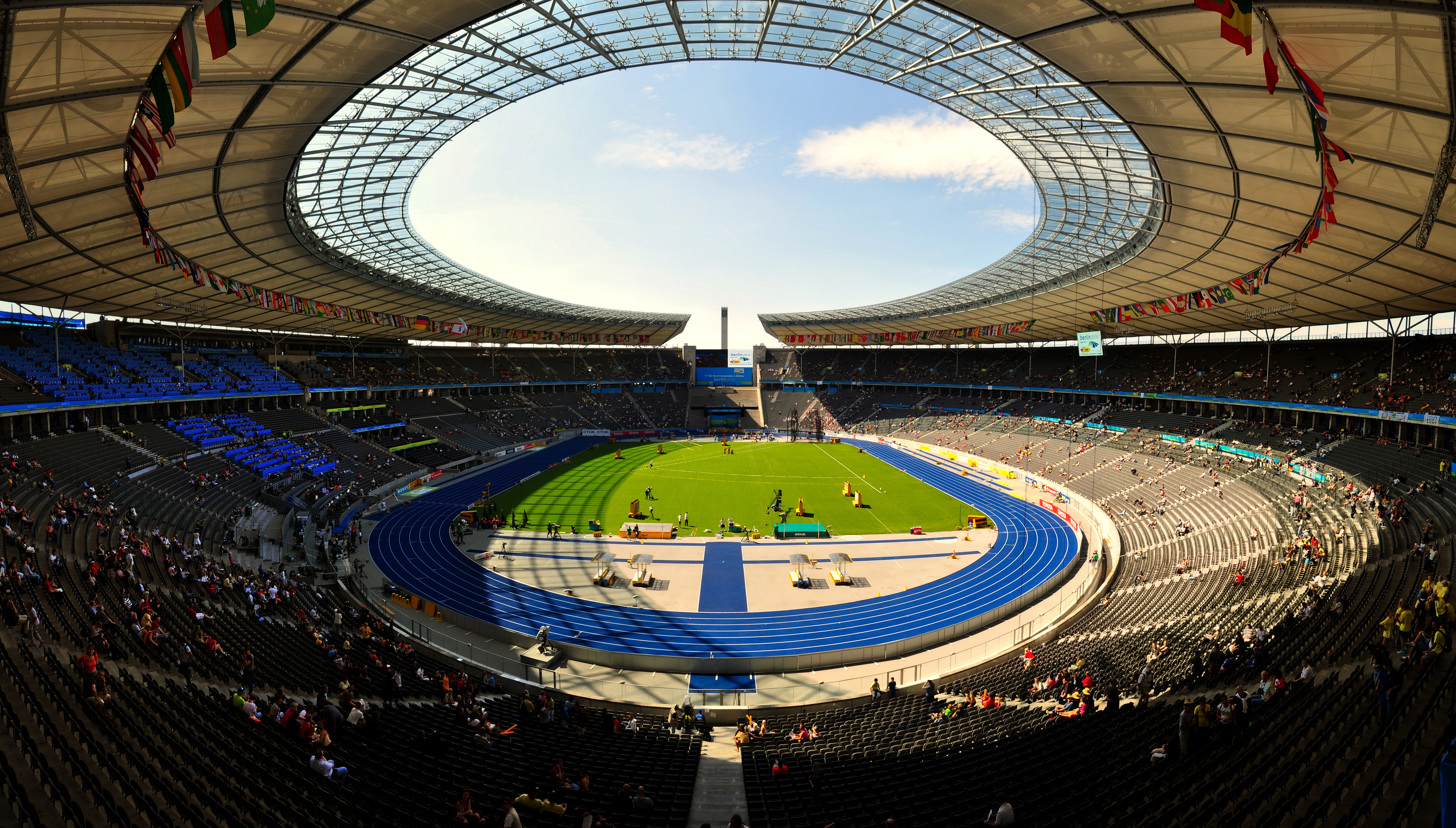 panoramic shot of the olympic stadium of Berlin during the 12th IAAF World Championships in Athletics